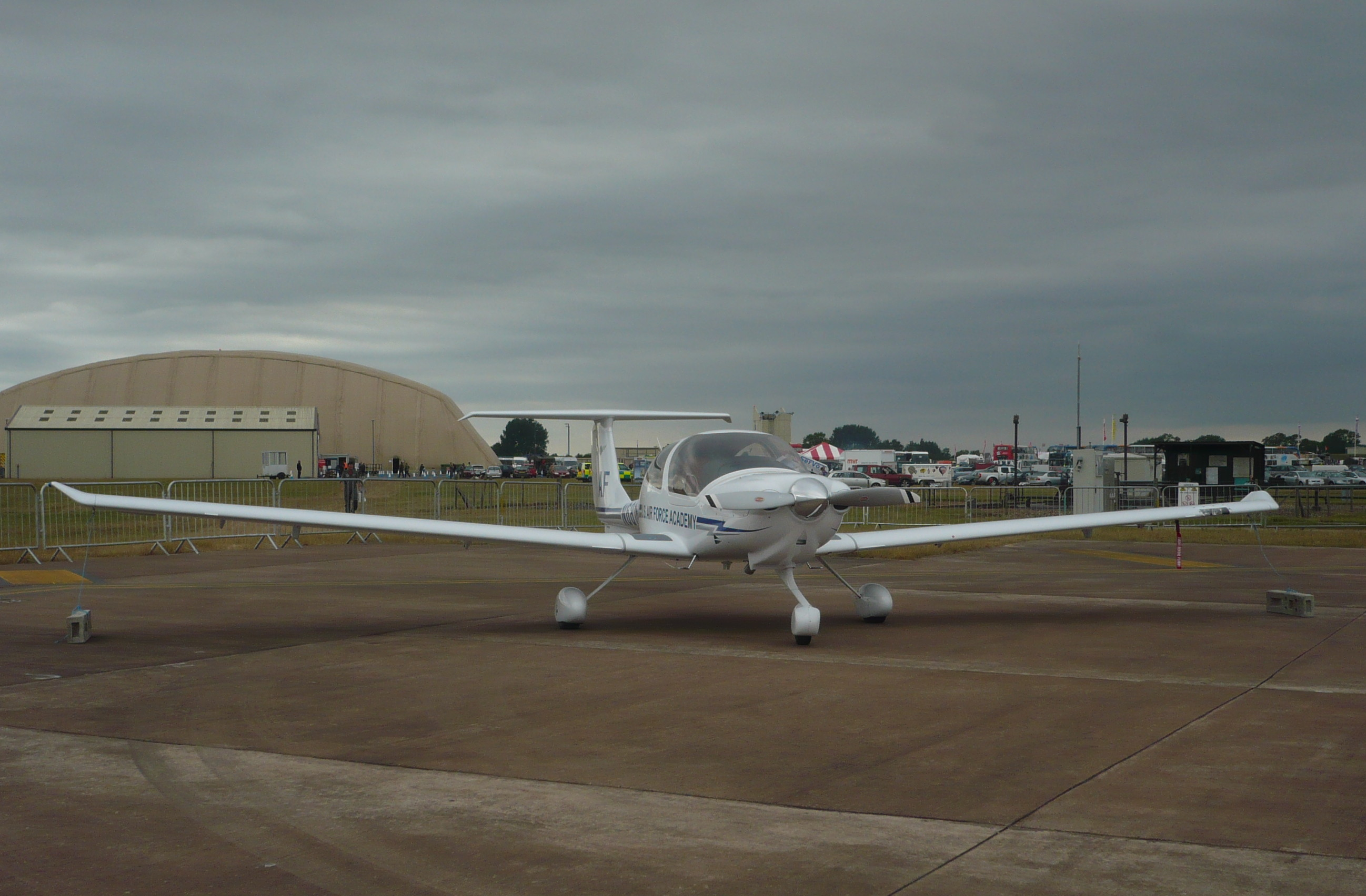 Diamond DA40 Diamond Star of the United States Air Force Academy at RIAT 2010.